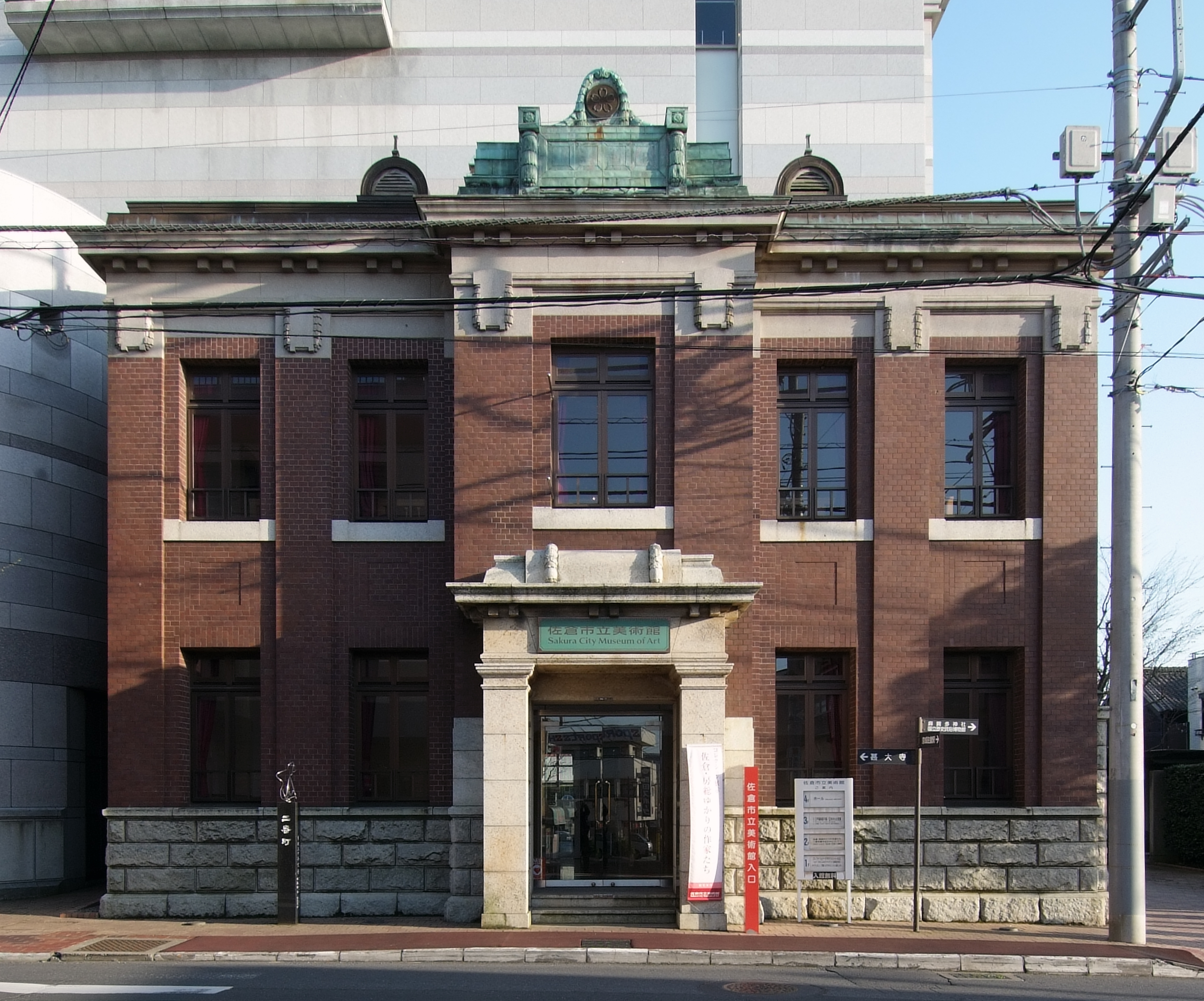 Sakura City Museum of Art in Sakura Chiba Japan.